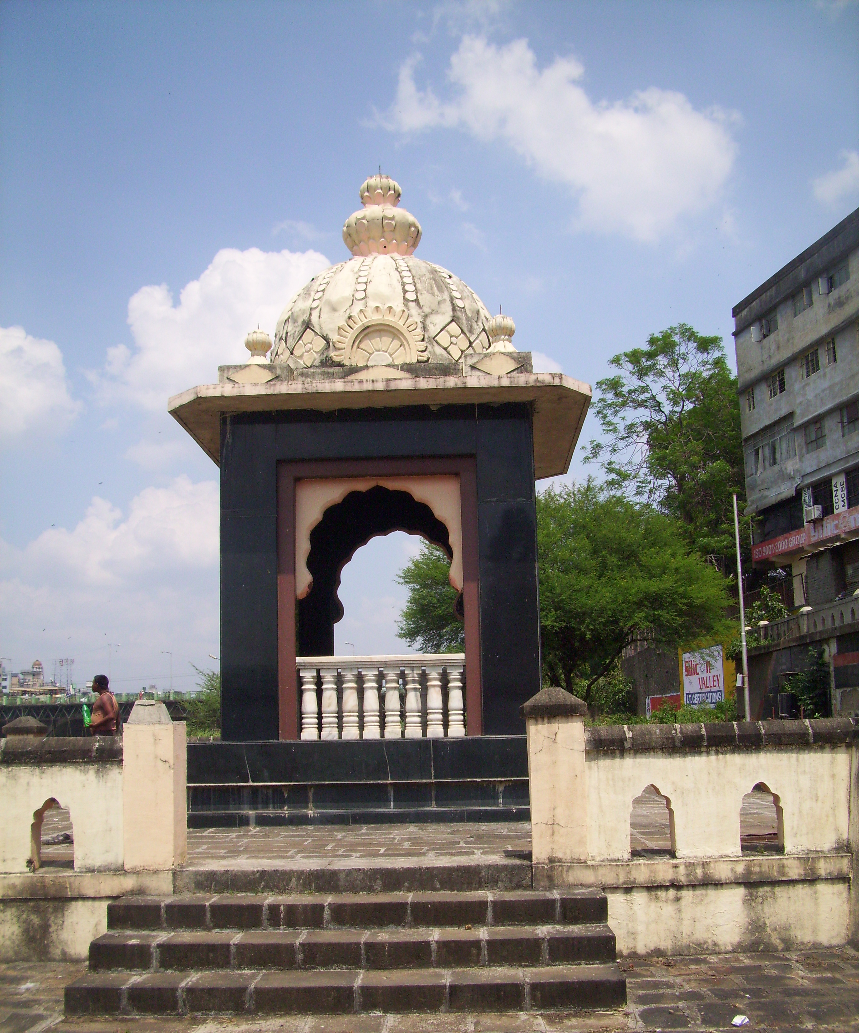 Nanasaheb peshawe samadhi in pune